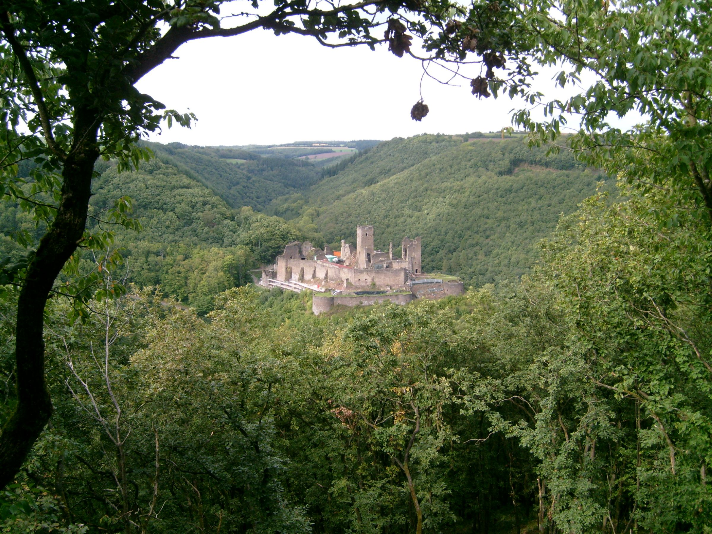 The Castle of Brandenbourg, Luxembourg, surrounded by mixed forests. View from south, viewpoint on the hill named Köpp. The valley of the Millebaach in the background.